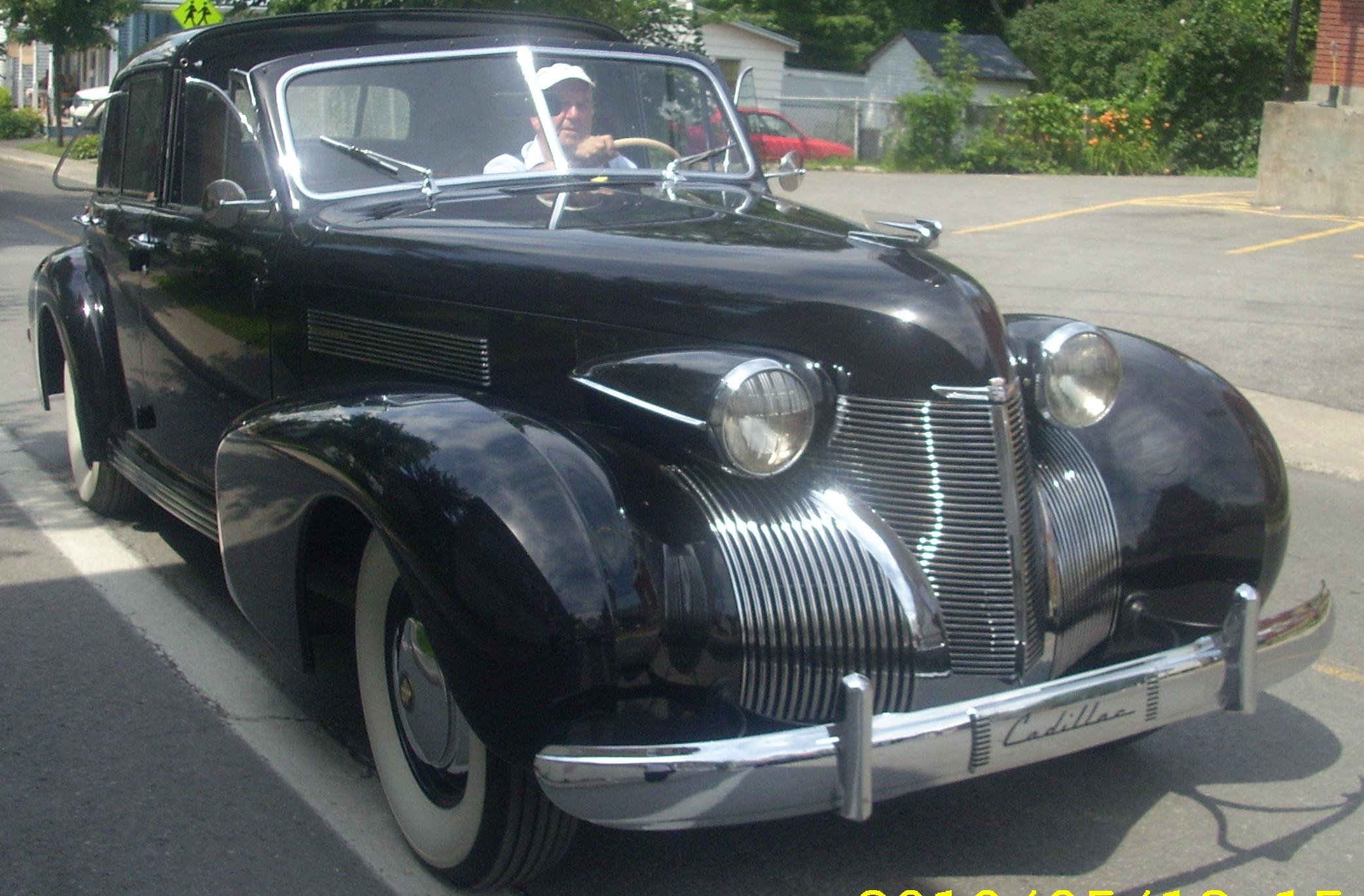 Cadillac photographed in Laval, Quebec, Canada.